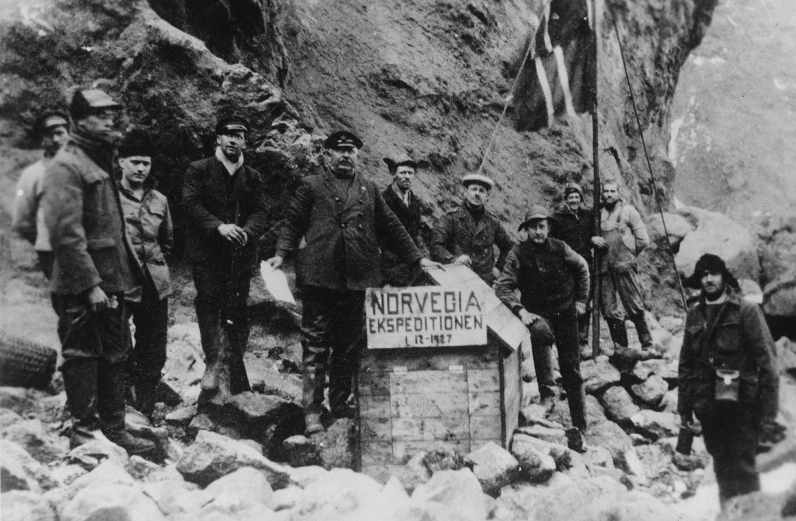 From the first landing on Bouvet Island